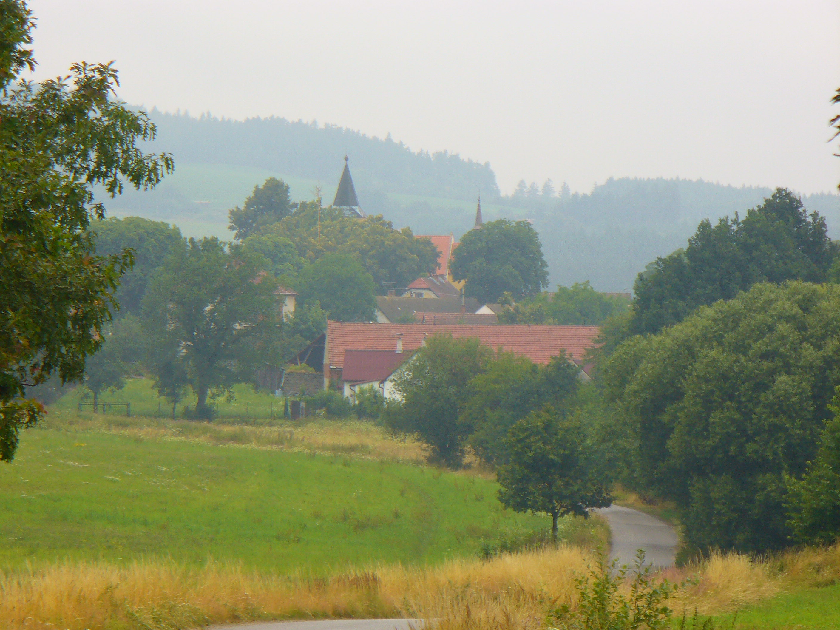 Viev to village Předbořice from road between Březí and Předbořice